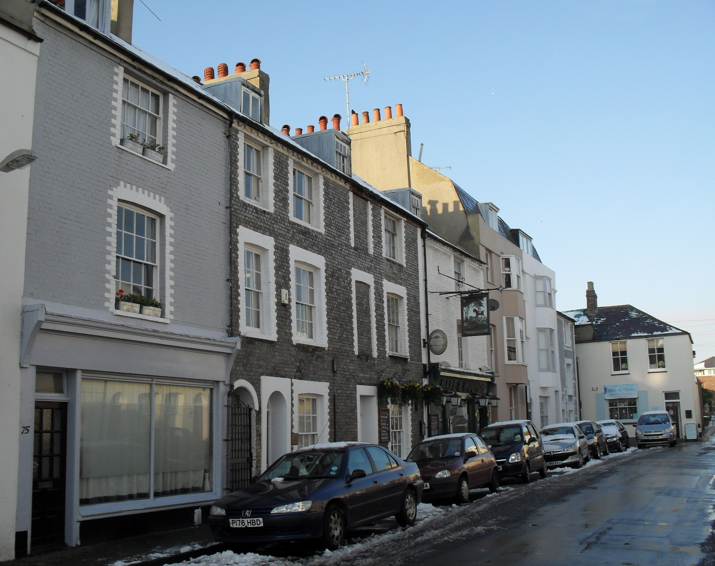 75–89 Portland Road, Worthing, West Sussex, England, seen from the southeast. 81 is the Hare and Hounds pub. 75–79 and 83–89 are houses. All are 19th-century and Grade II listed.